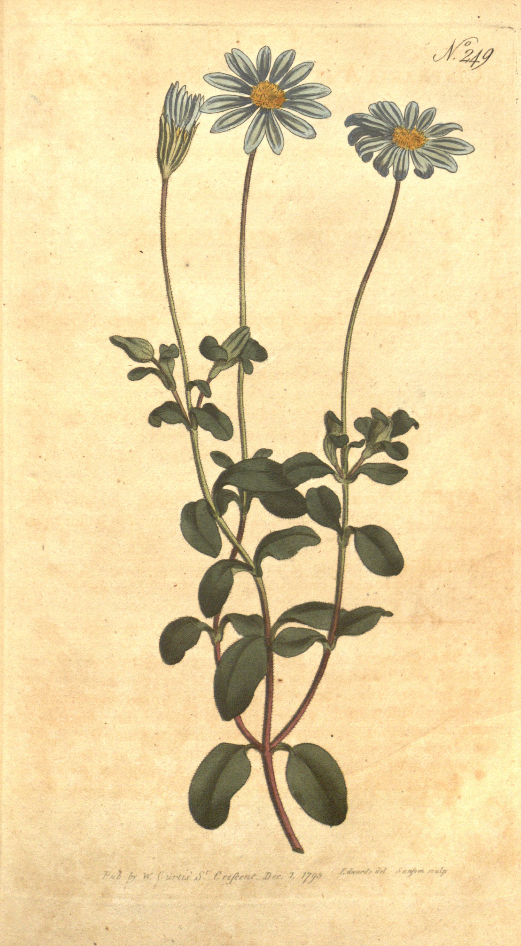 This is a plate from The Botanical Magazine, Volume 7.